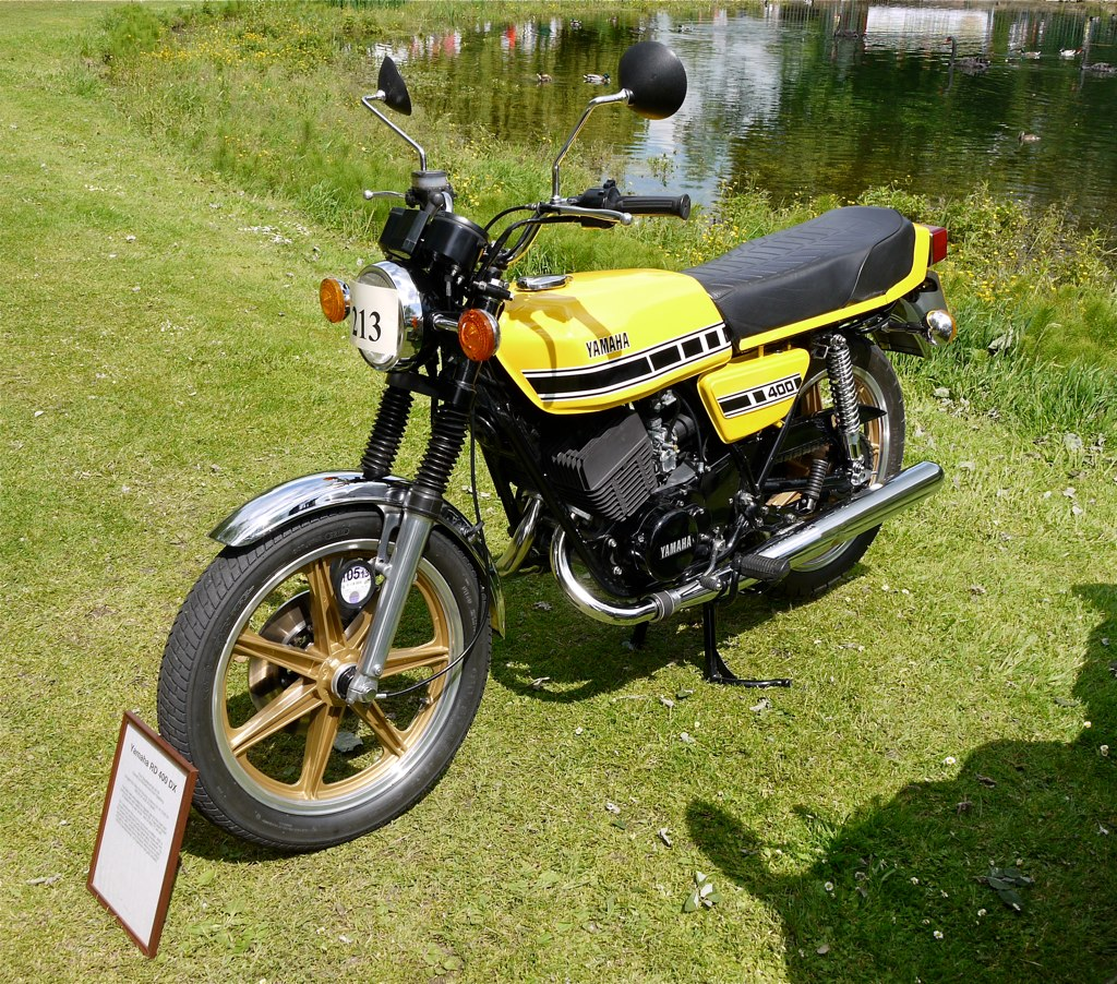 Yamaha RD400 DX 1978 exposed at Bourne classic car show, Lincolnshire.